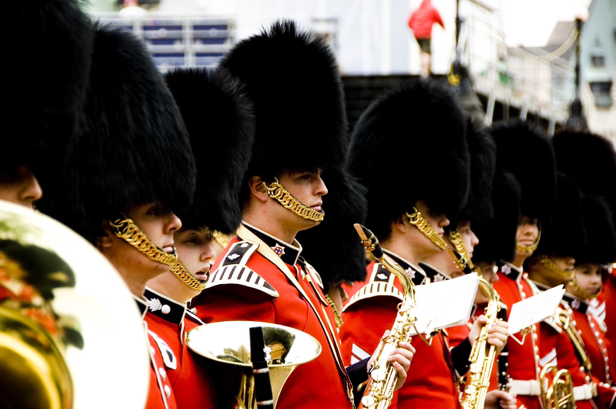 July'07073